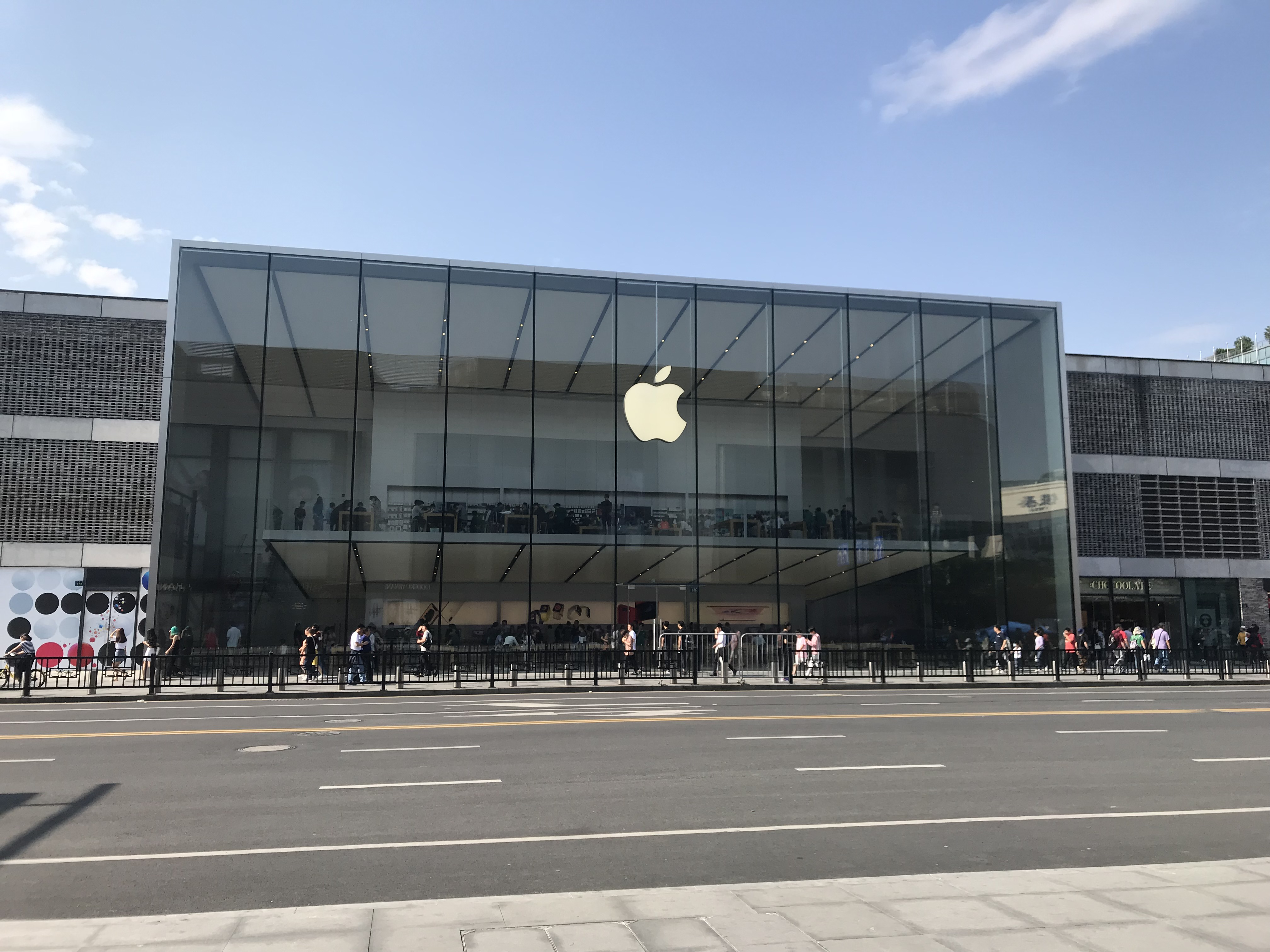 201805 Apple Store West Lake